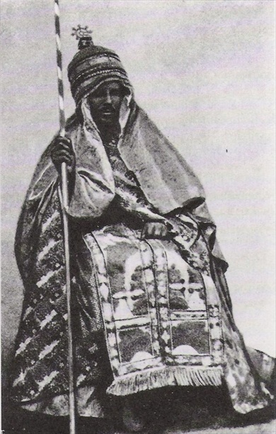 Yohannes IV